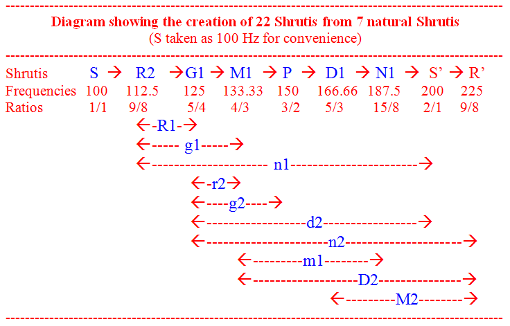 Creation of 22 Shrutis from 7 natural Shrutis